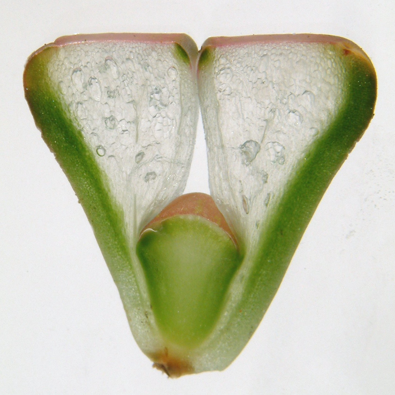 Dissected Lithops